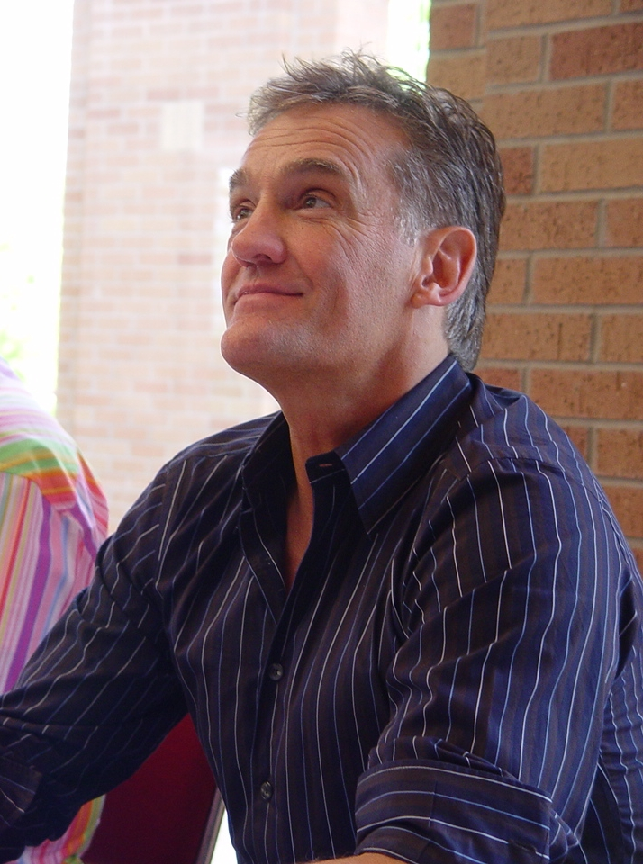 American actor John Wesley Shipp at the 2006 Dallas Comic Con.